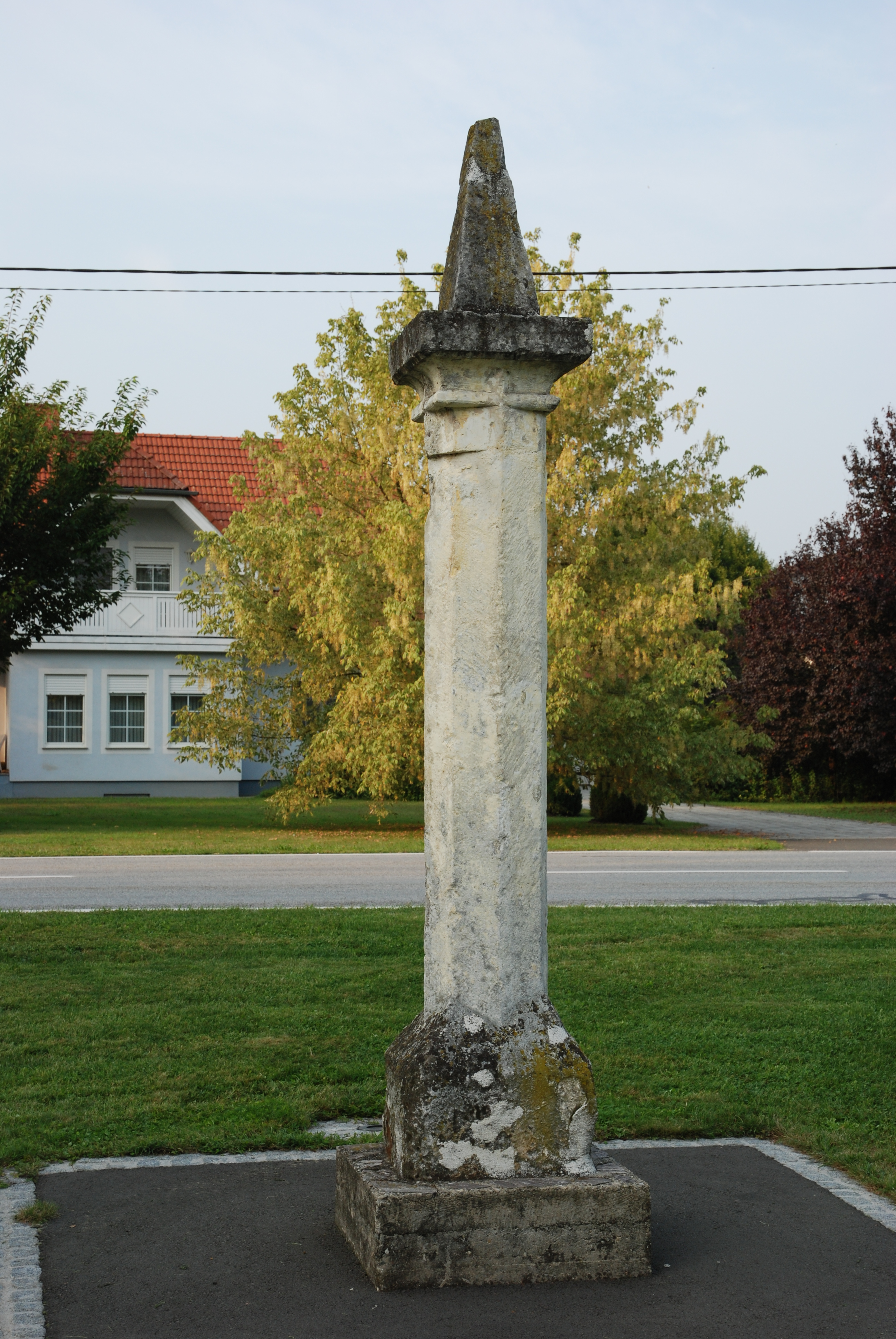 Pranger Lichendorf